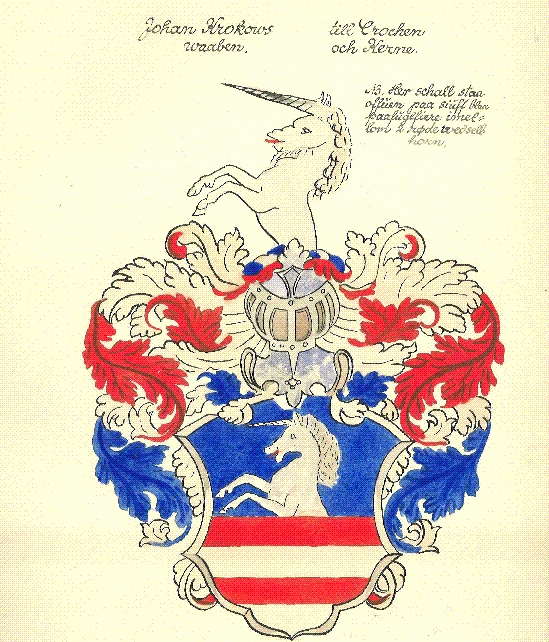 1 = Coat of arms of Johan Kruckow (new version), Norway.